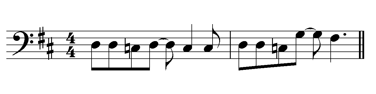 bass line of the 1966 Temptations song »Get Ready« as played by James Jamerson, Music Publisher 5 file by the author